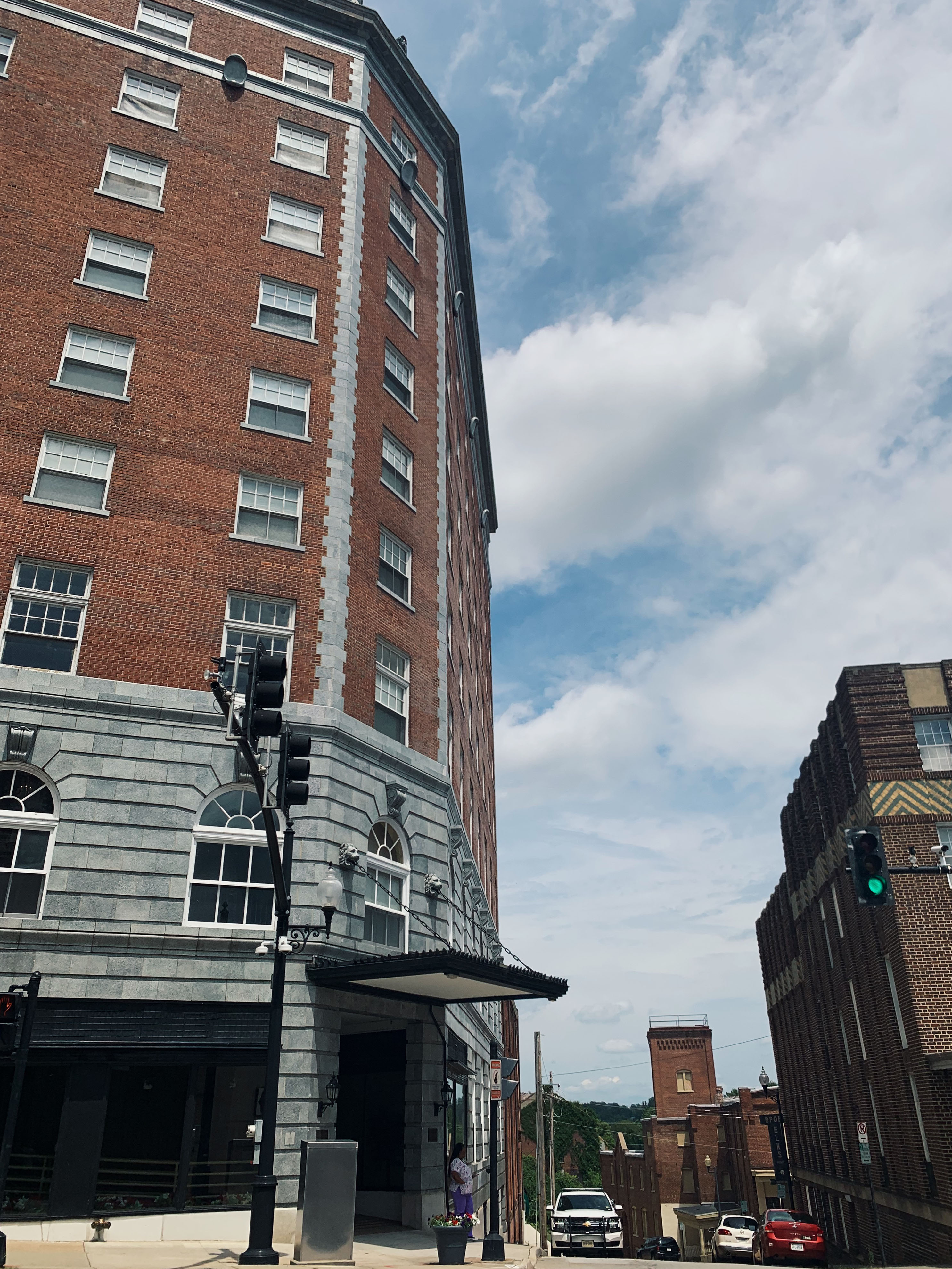 Old Danville Hotel, which now works as a nursing facility.